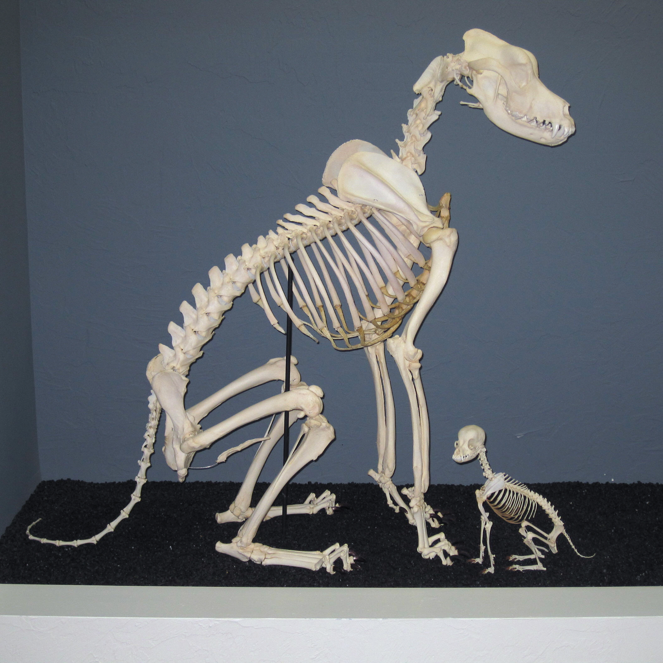 Great Dane Skeleton Compared to a Chihuahua Skeleton at the Museum of Osteology